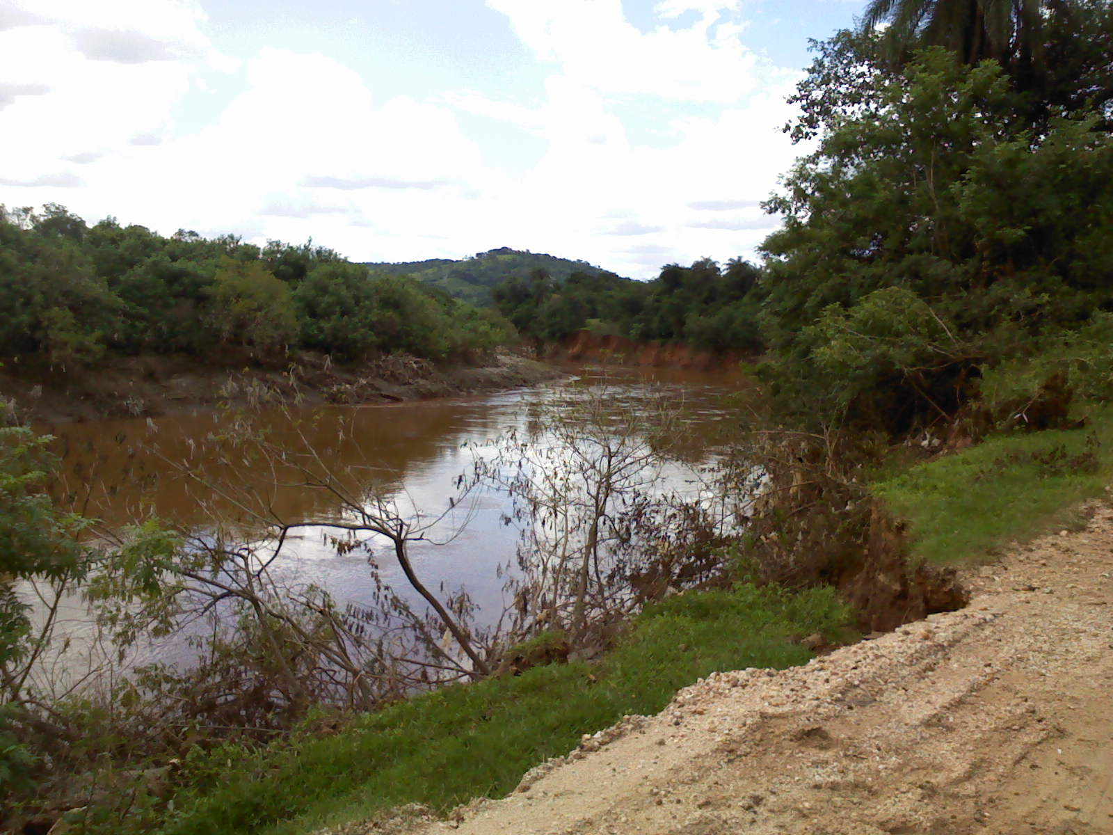 Rio das Velhas, em Santa Luzia, Minas Gerais, Brazil.